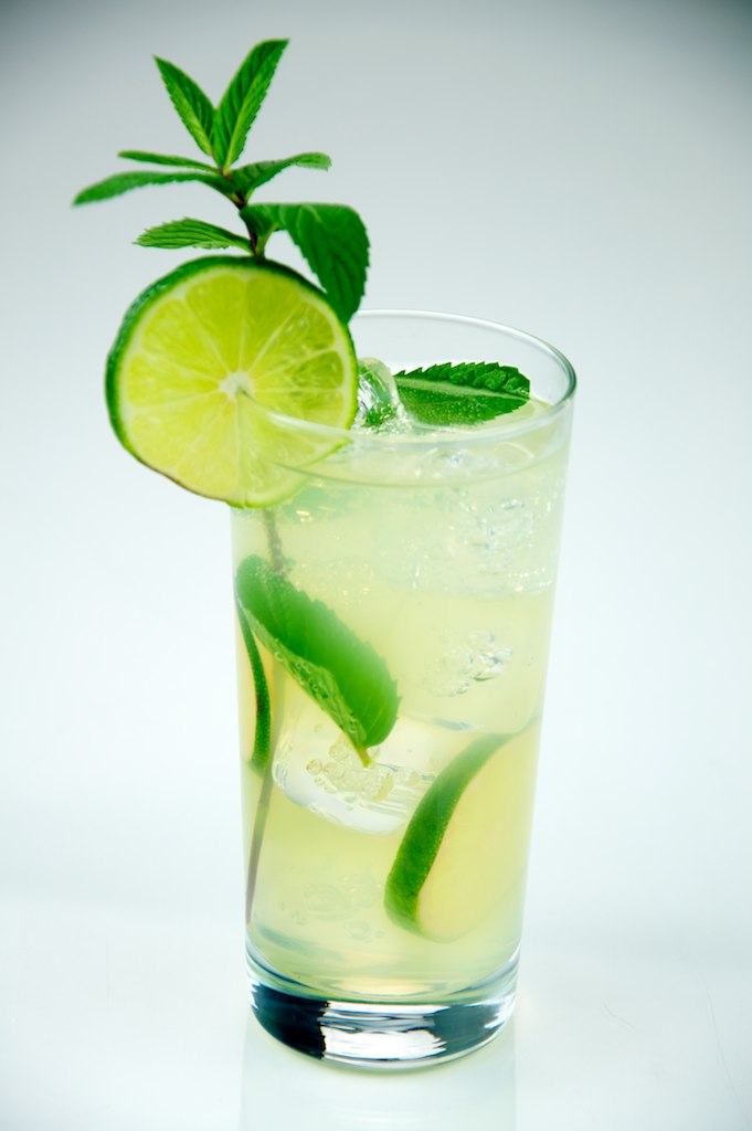 Mojito made with rum, lime, sugar, mint, club soda, served in a tall glass.